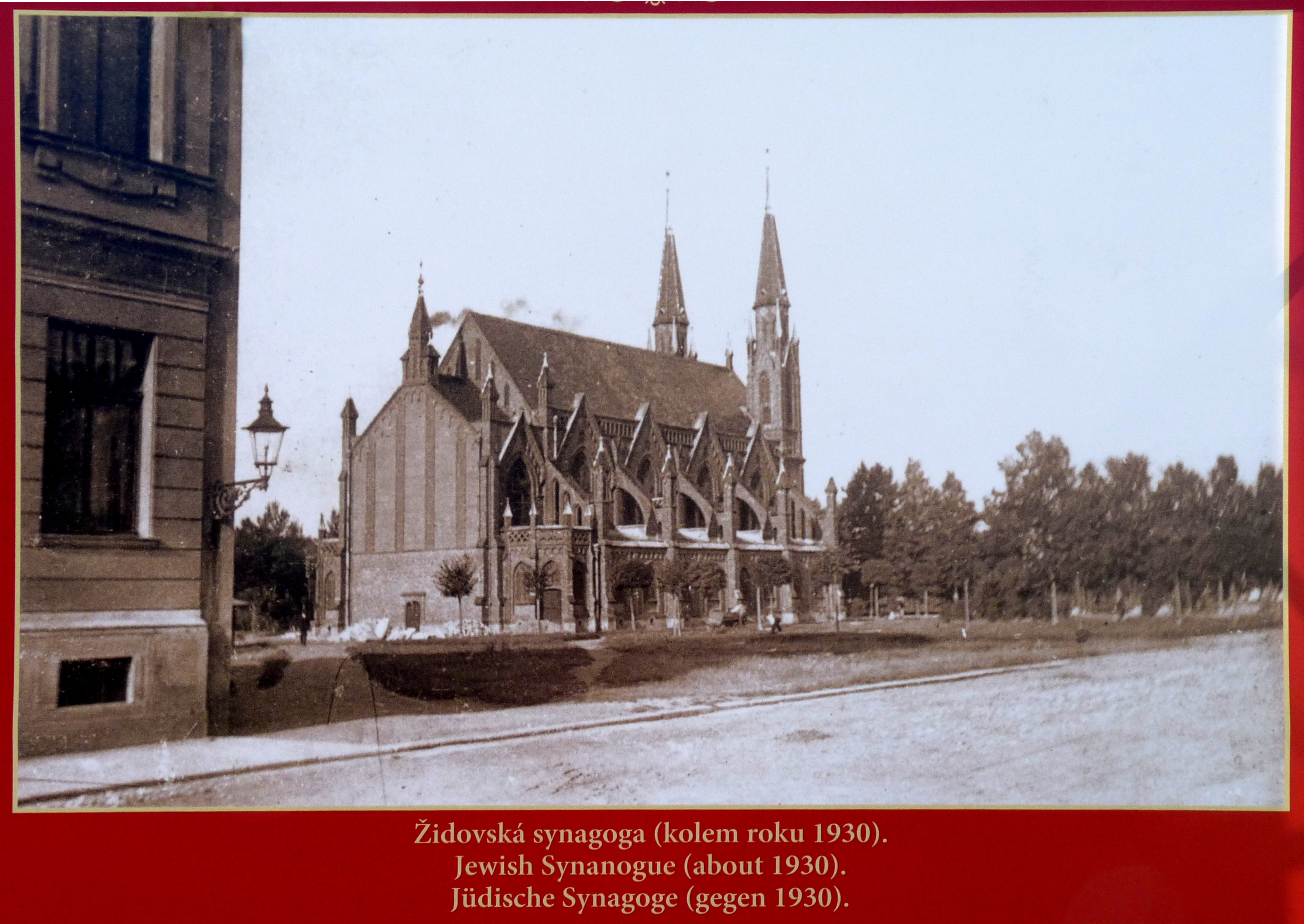 Historical photo of the synagogue in the city of České Budějovice, South Bohemian Region, Czech Republic, during the exhibition of comparative photographs by Milan Binder.